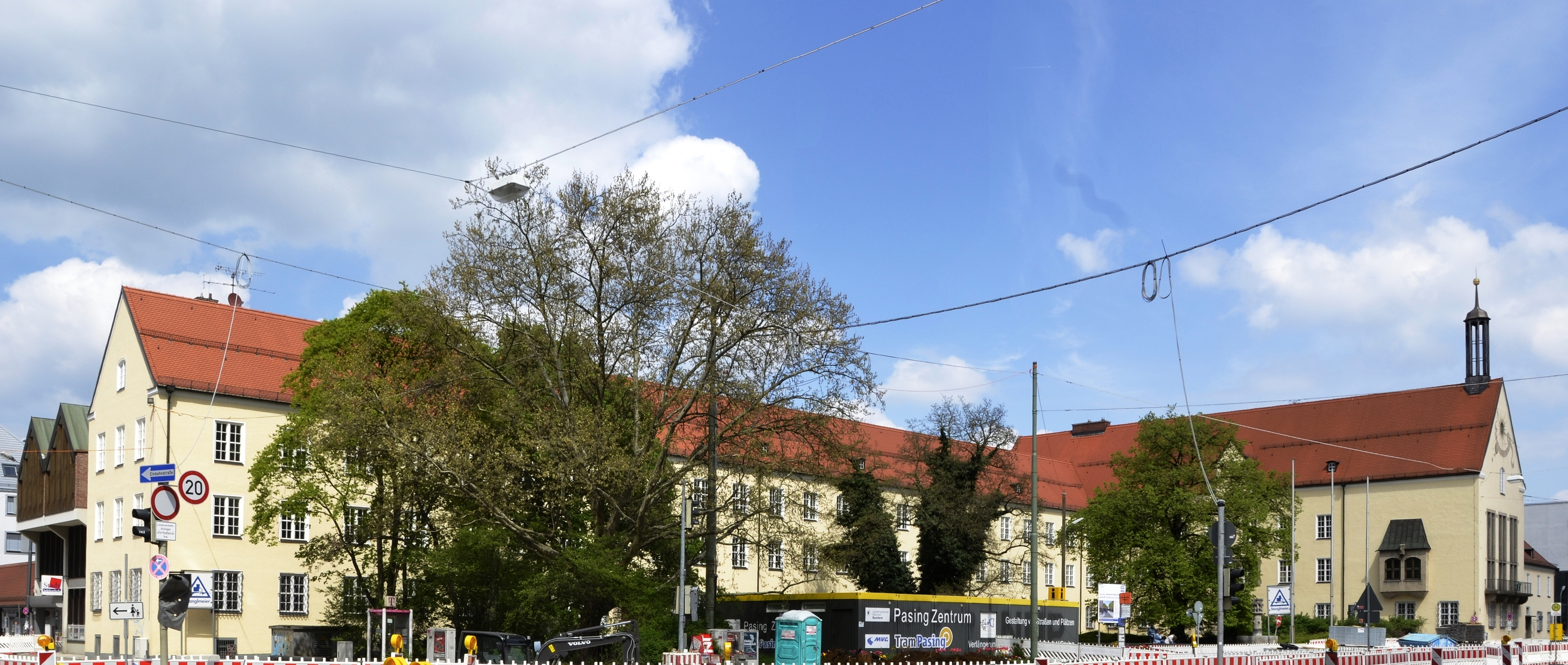 The community centre of Pasing.